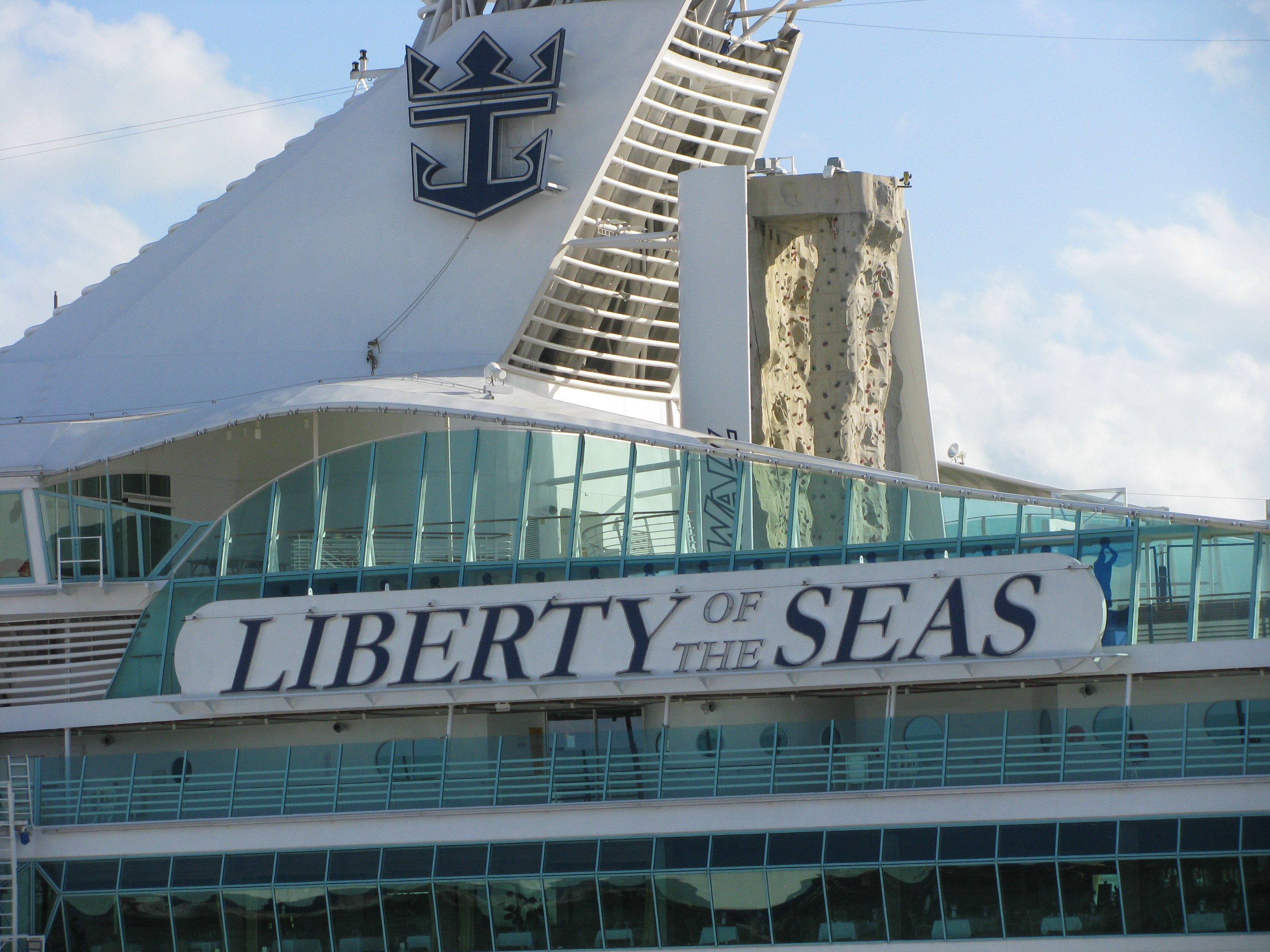 Liberty of the Seas cruise ship docked in the Port of Miami - Google Maps - Google Earth